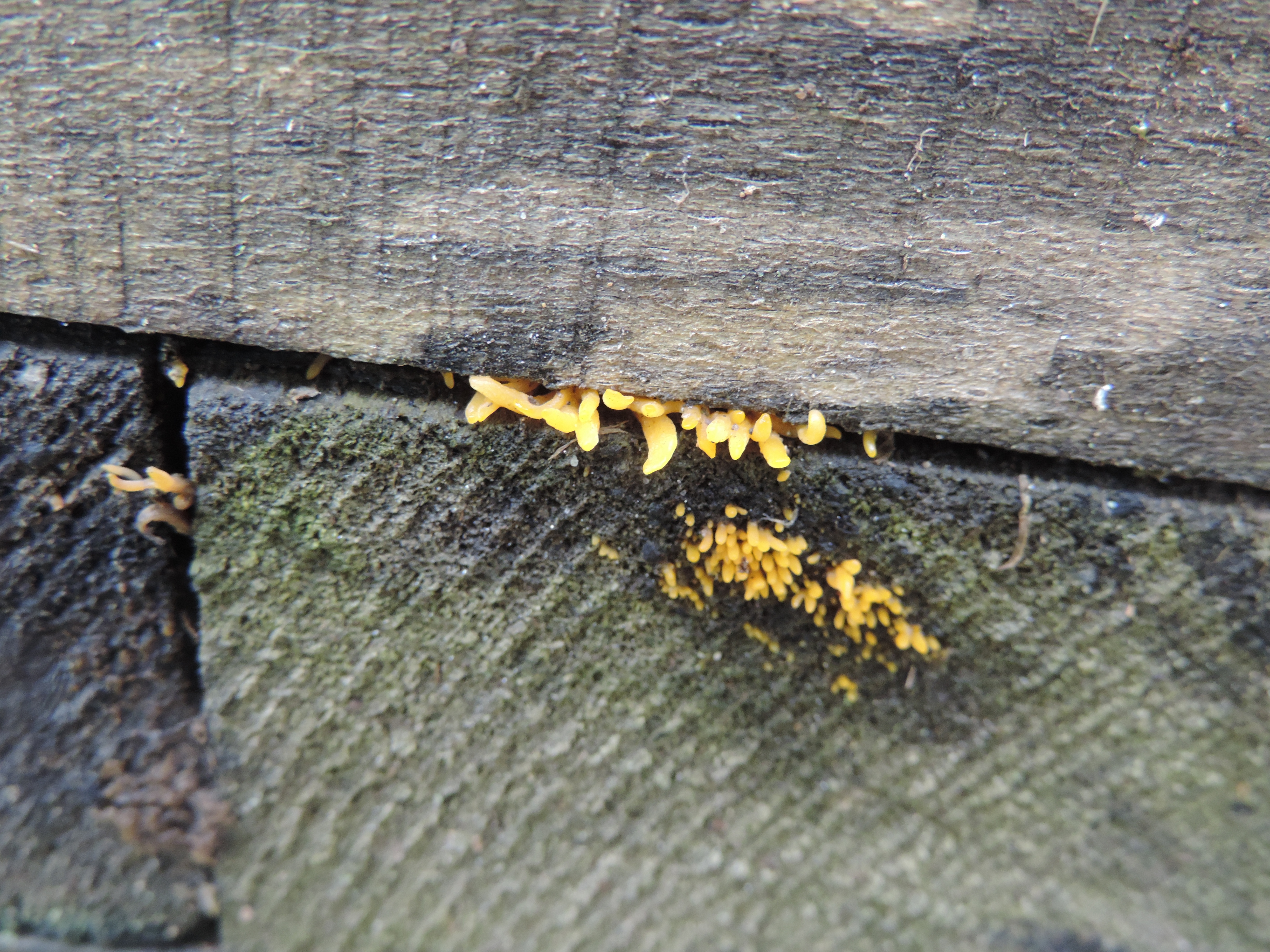 Calocera coronea